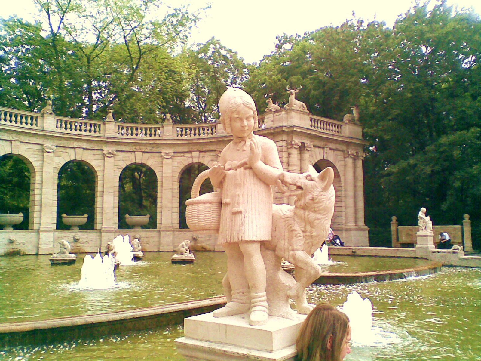 Friedrichshain locality of Berlin: Märchenbrunnen (fairy tale fountain) in the Volkspark Friedrichshain park, sculpture on the Brothers Grimm fairy tale «Little Red Riding Hood» by Ignatius Taschner.